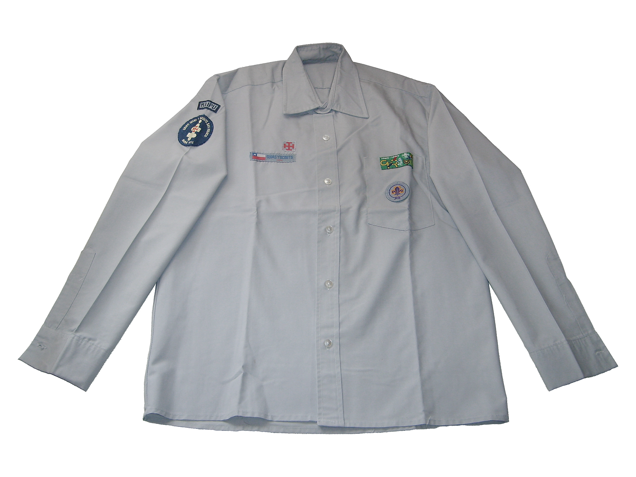 Scouting shirt of Chile.